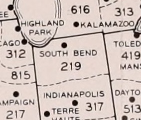 Area code 219 and its neighbours.